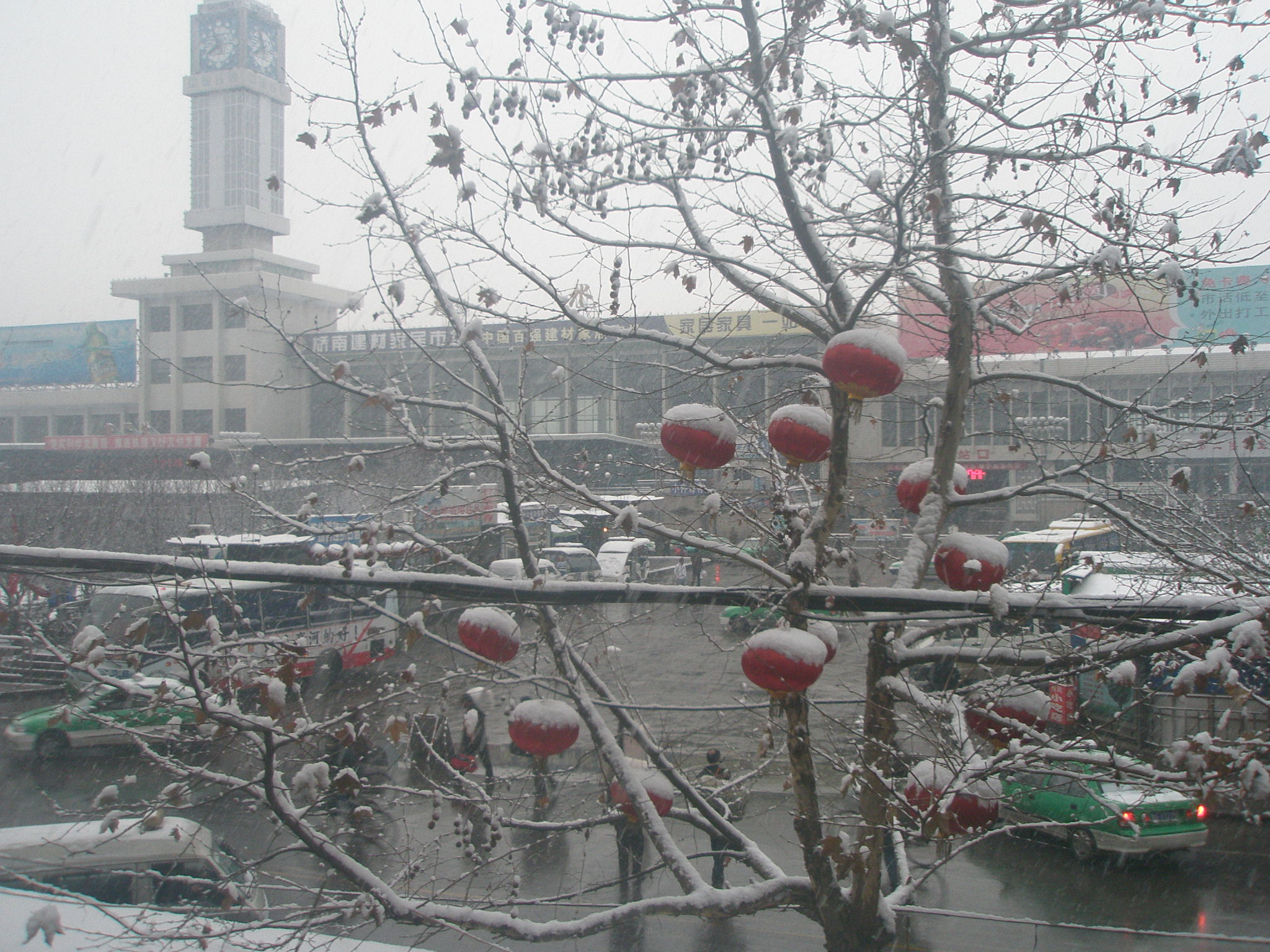 Tianshui train station in winter 2009 with snow and smog.